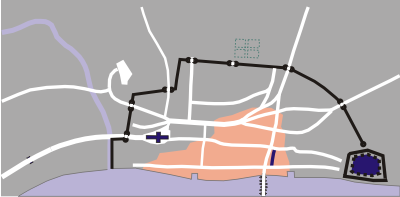 Spread of the Great Fire of London, by Monday, Sept 3, 1666. Drawn by myself in Corel Draw.